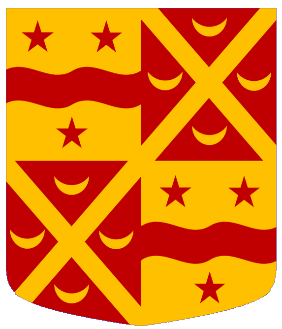 Shield of arms of The Lord Kinnaird